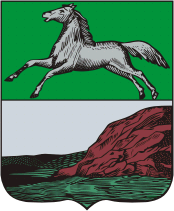 Krasnoyarsk (Krasnoyarsk krai), coat of arms (1804)